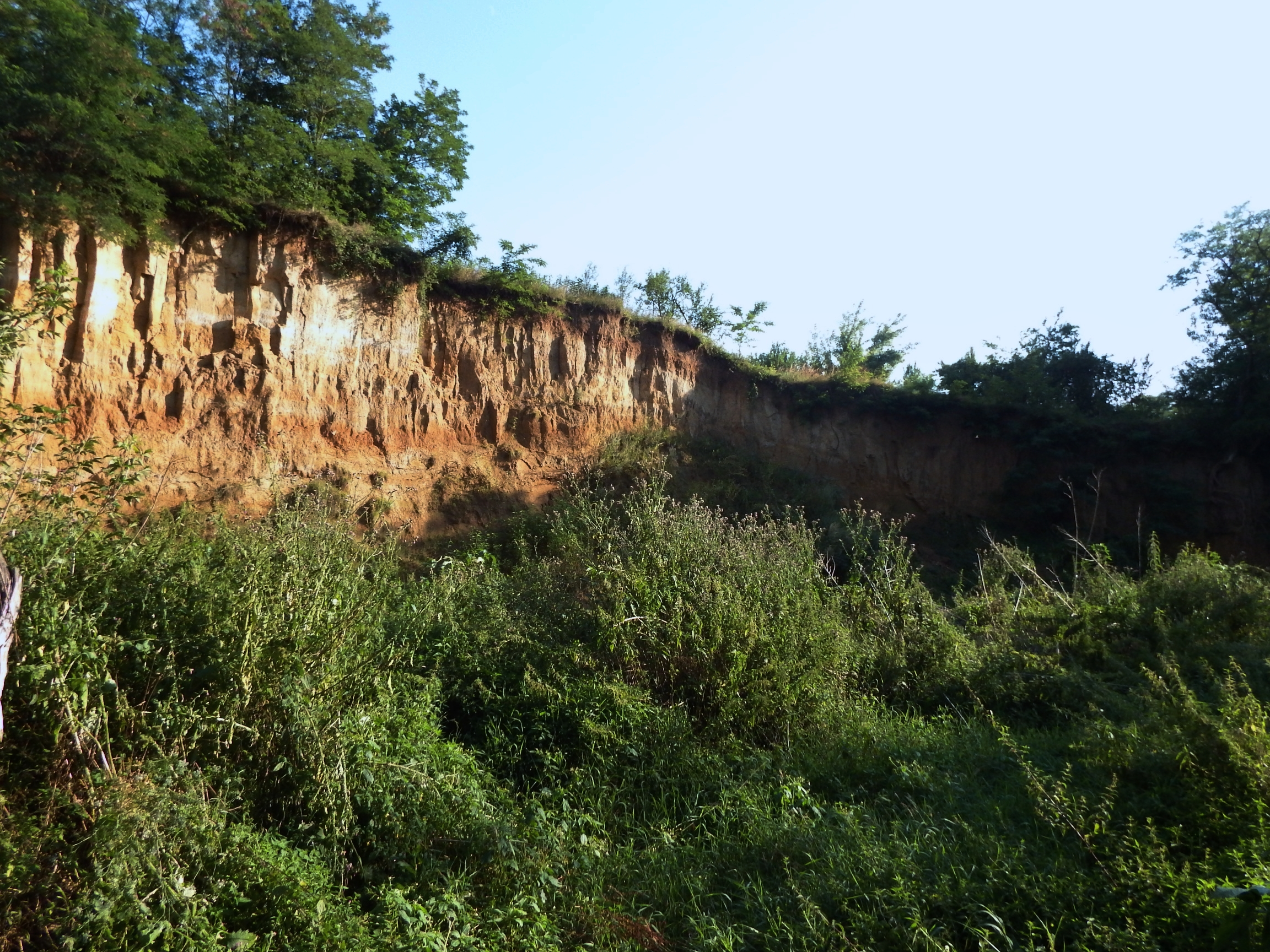 Olšava, natural monument in Uherské Hradiště District, Czech Republic.